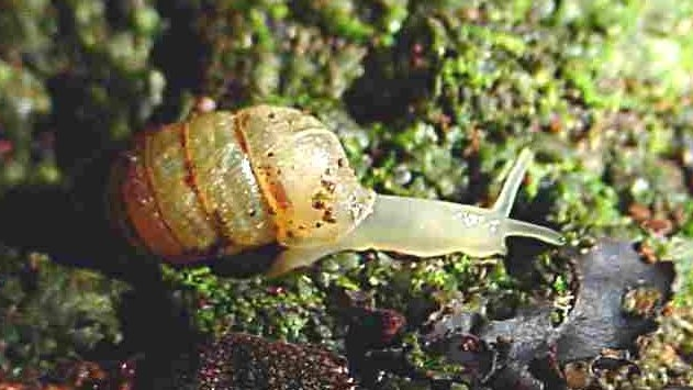 Endemic landsnail (Gonospira uvula) from Reunion Island, Mare Longue forest